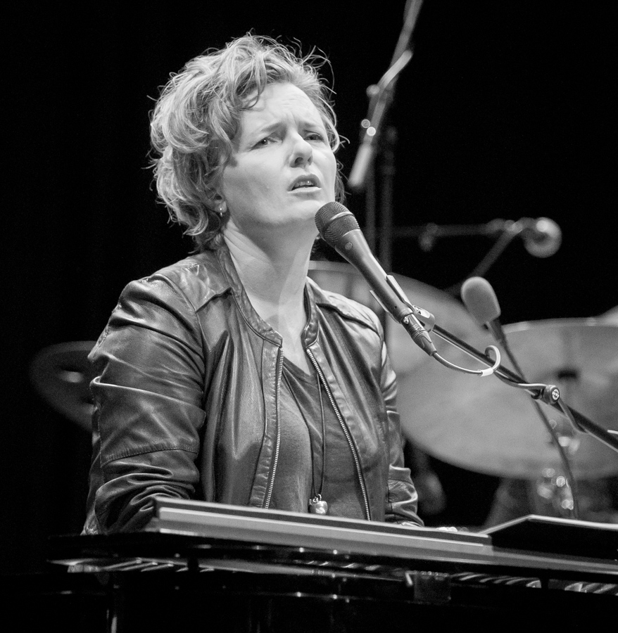 Ingrid Bjørnov at the stage of Cosmopolite. The concert took place on 05. April 2017 in Oslo. The concert marked the release of her new album "Jugekors & Sørgerender".Lineup:Ingrid Bjørnov (piano) Javed Kurd (guitar)Jon-Willy Rydningen (keyboard)Rino Johannessen (bass guitar)Ole Petter Hansen Chylie (drums)Kari Slåttsveen (spoken words)Øystein Sunde (guitar)